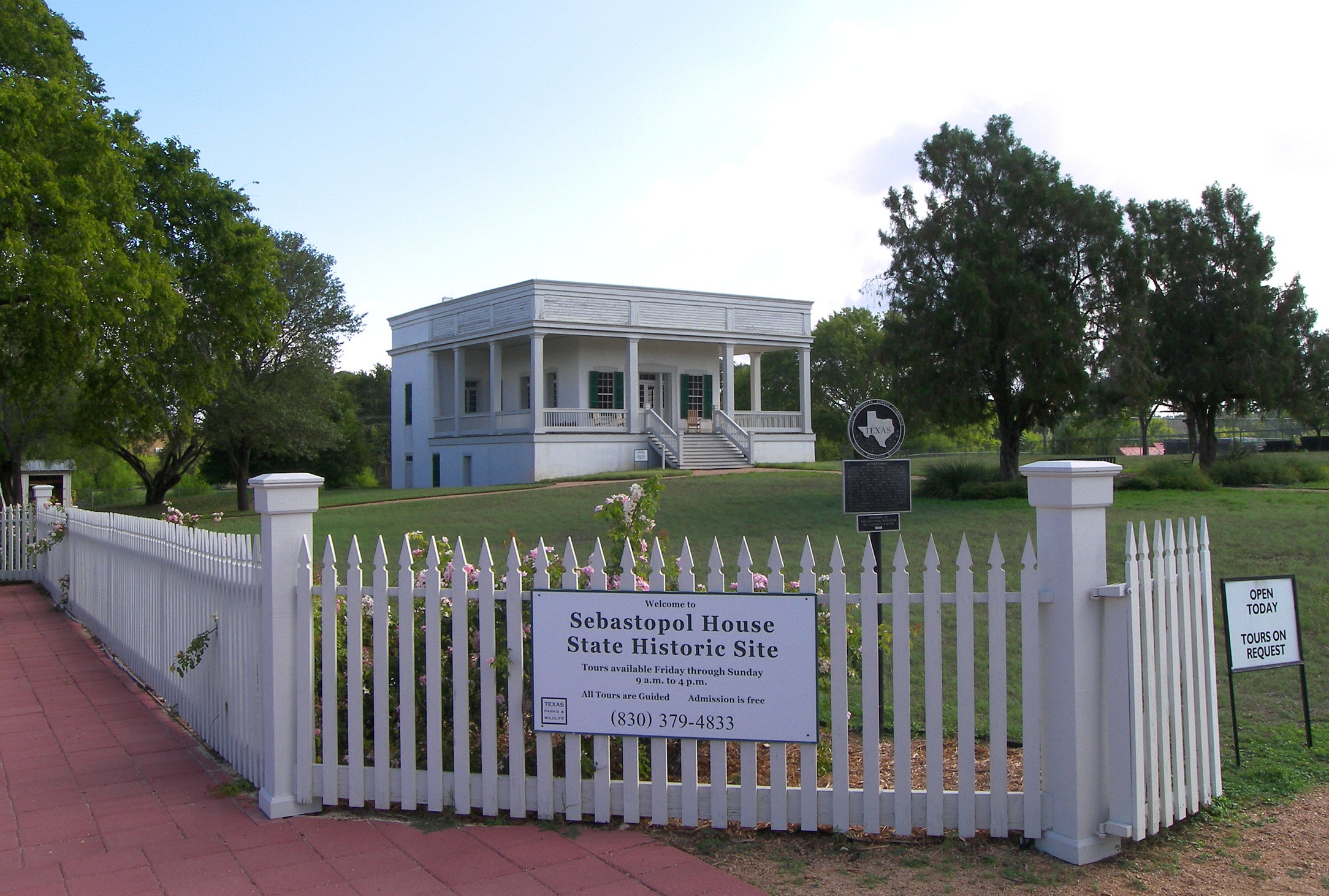 The Sebastopol House State Historic Site located in Seguin, Texas, United States was designated a Recorded Texas Historic Landmark in 1964 and listed on the National Register of Historic Places on August 27, 1970.